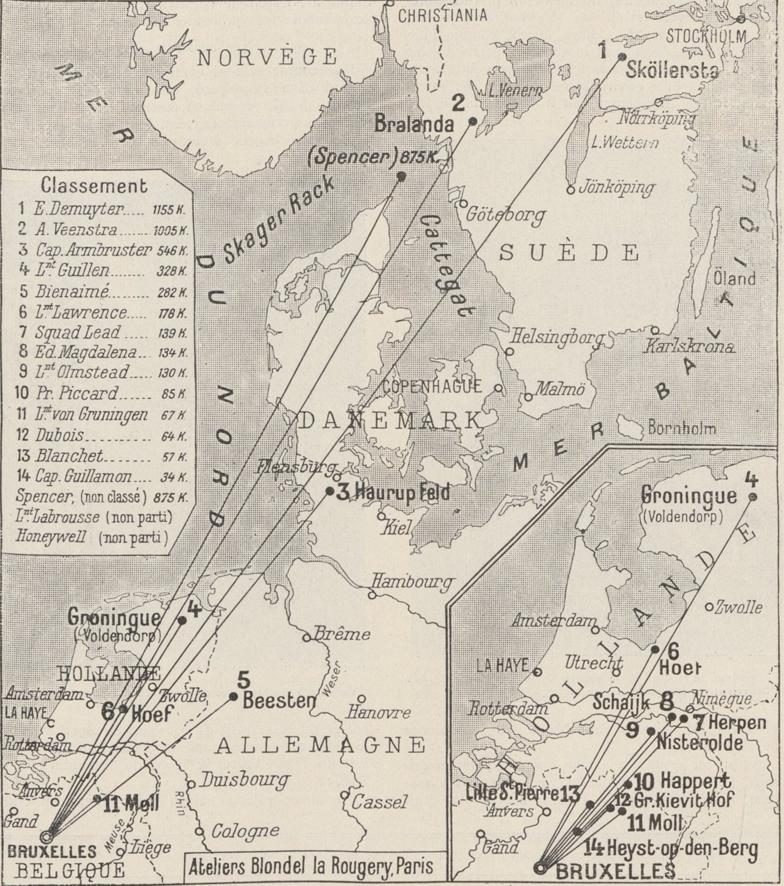 Gordon Bennett Cup in ballooning 1923. Flight routes.